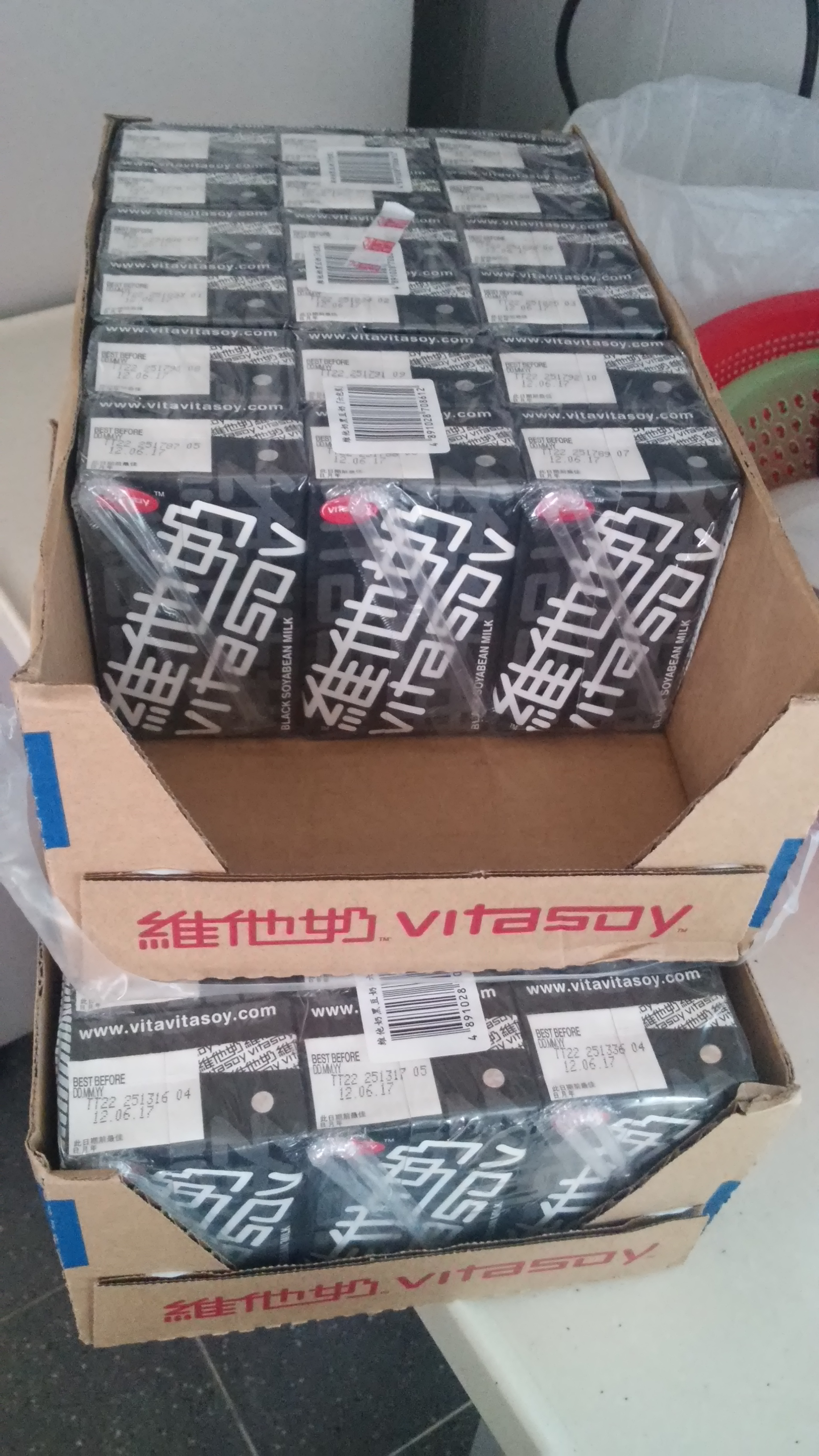 HK drink Vitasoy black bean milk pre-packaged paper carton in July 2016